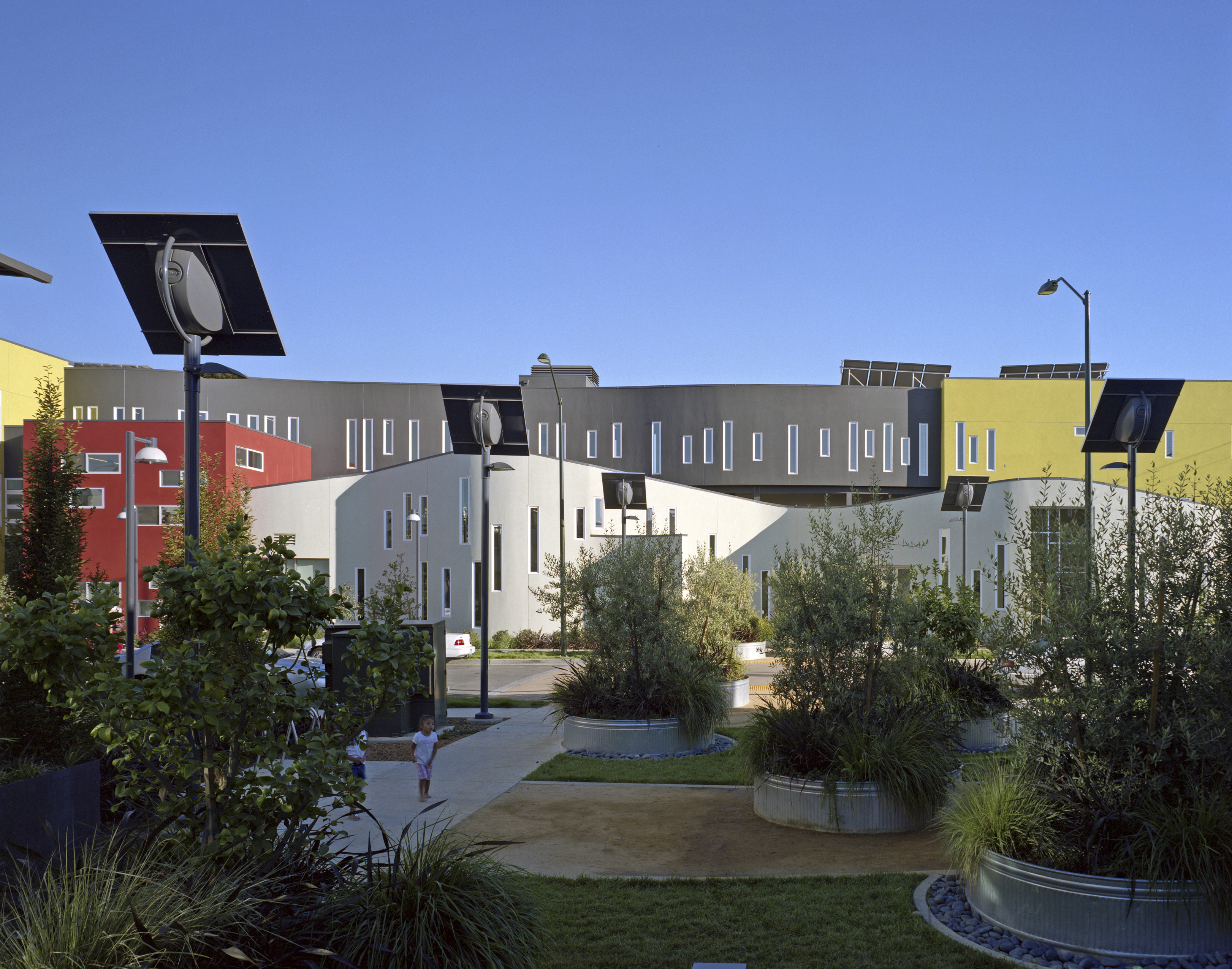 View of the Tassafaronga apartments community spaces from the Village Square. Oakland, California, USA.